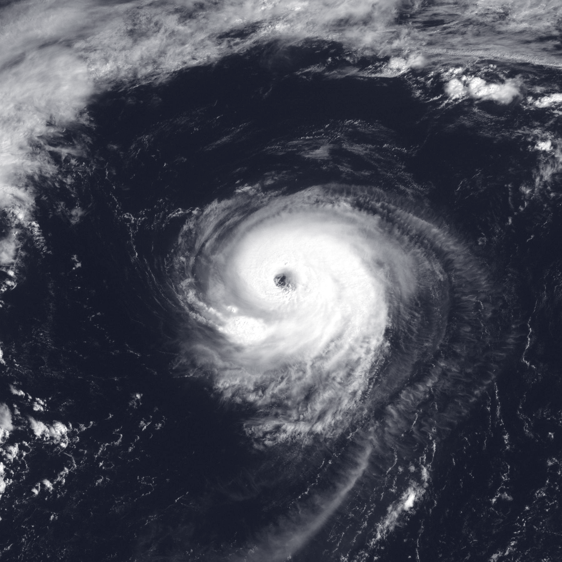 Hurricane Alberto at peak intensity over the northern Atlantic Ocean on August 12, 2000